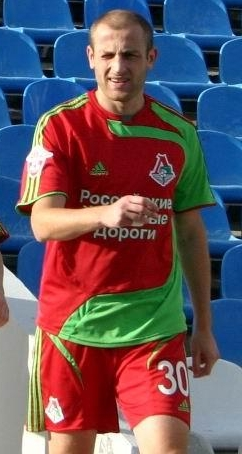 Malkhaz Asatian as player of FC Lokomotiv Moscow